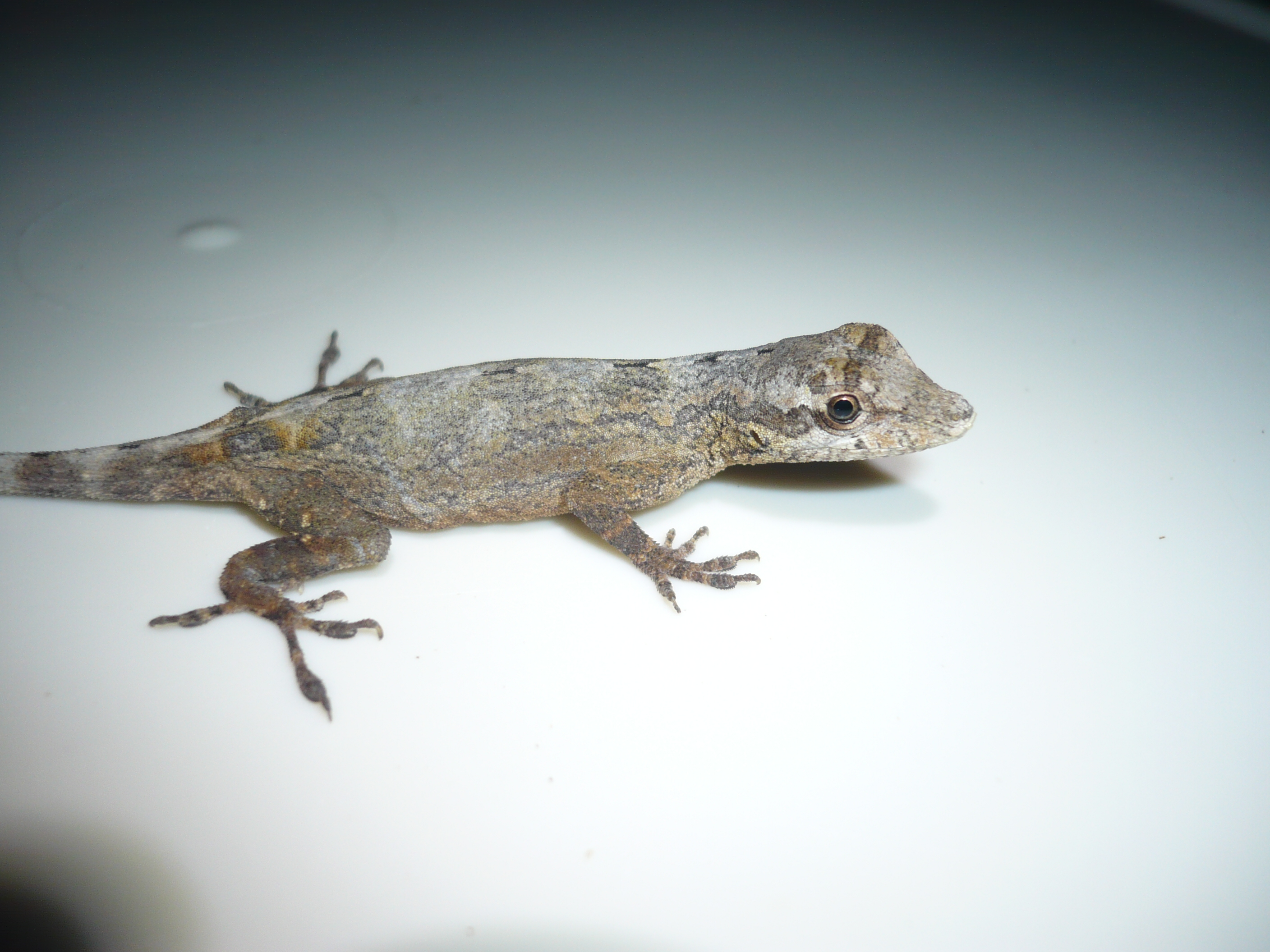 Anolis ortonii in Madre de Dios, Peru. Female.